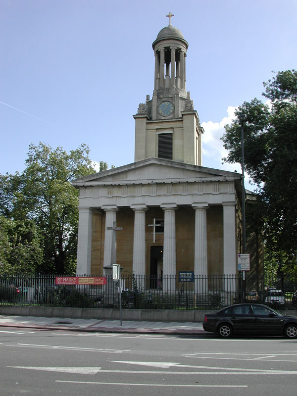 St Marks Church Kennington opposite Oval Tube station